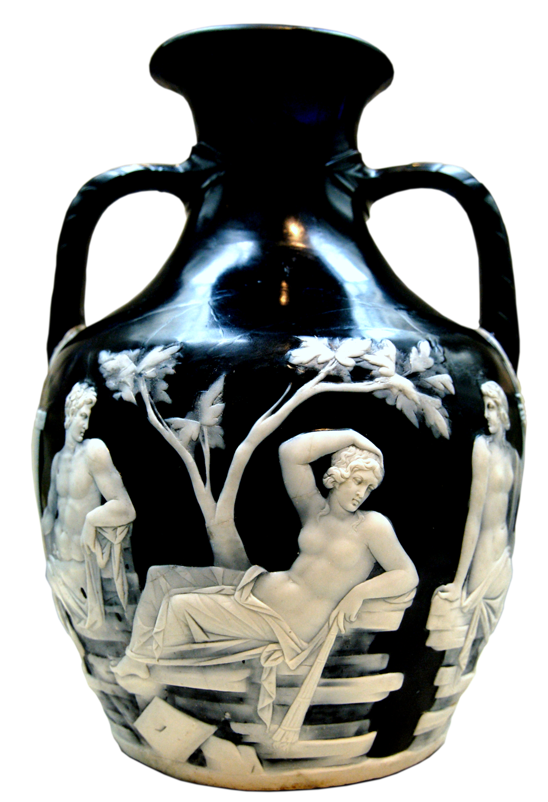 Scene 2 or Side B of the original Portland Vase, Cameo-glass, probably made in Italy ca. 5-25 CE. From the British Museum. The original image was photographed and uploaded by Marie-Lan Nguyen (user:Jastrow) This version of the image was resized for deeper dpi, white-balanced, and the background changed to white by Kathleen Vail (user:AishaAbdel).